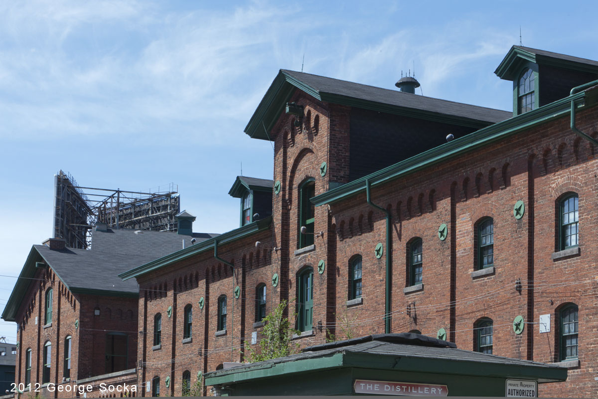 Interesting detail in the construction of these historic Gooderham and Worts Distillery buildings in Toronto Note the round plates of bars holding the building together